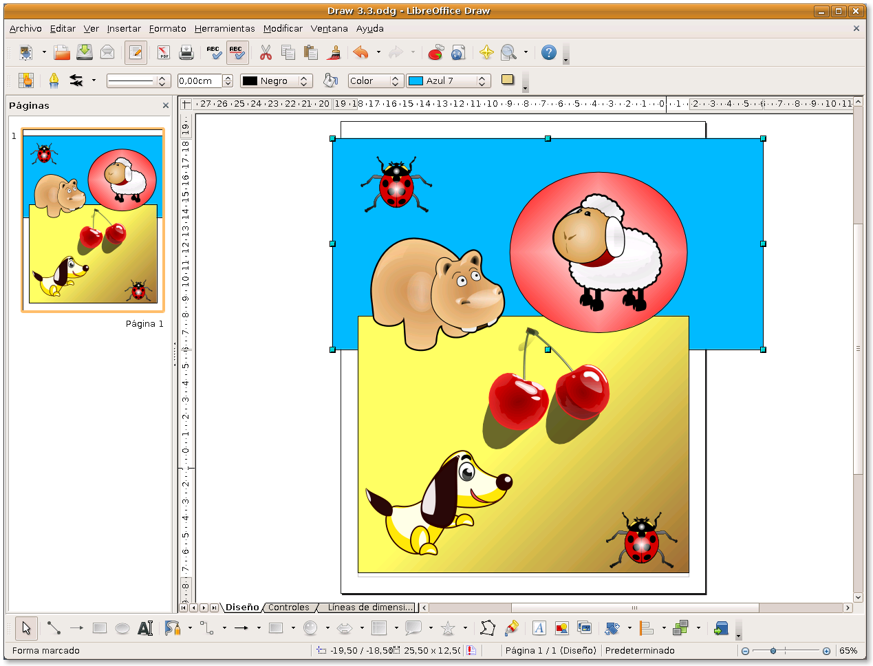 LibreOffice Draw 3.3 screenshot